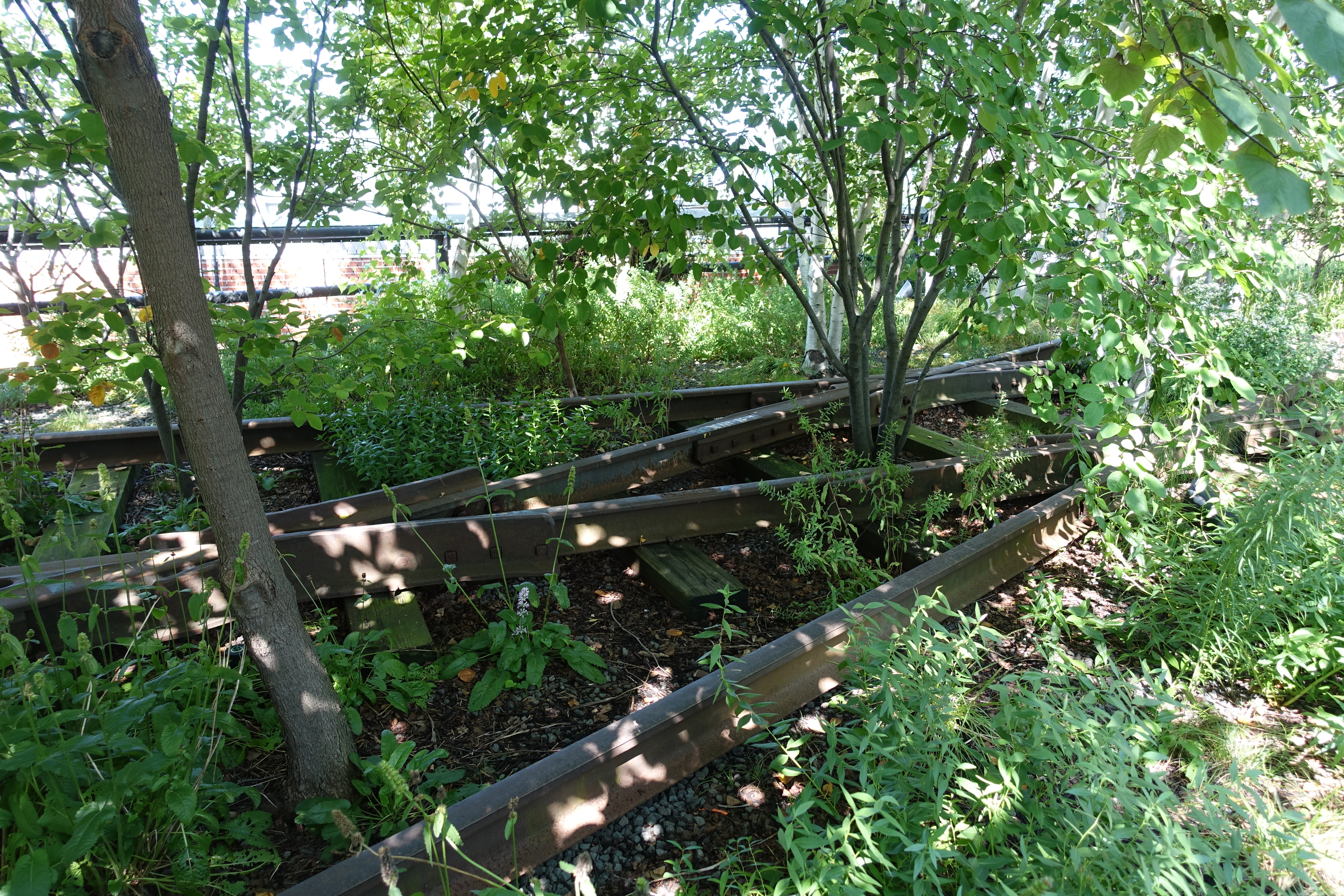 Plants on high line New York city